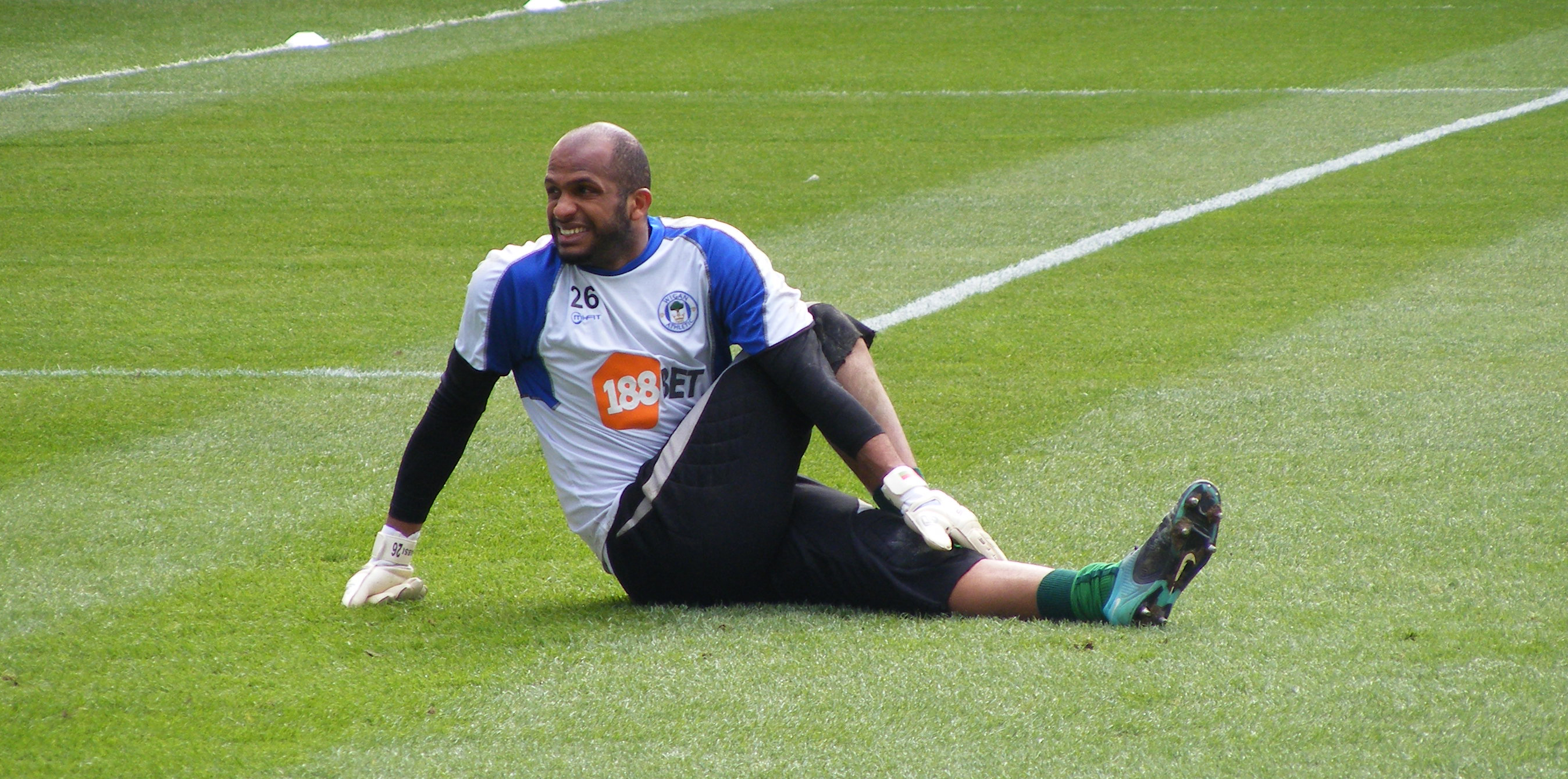 Ali Al Habsi warmup, Wigan Athletic v Birmingham, 19 March 2011